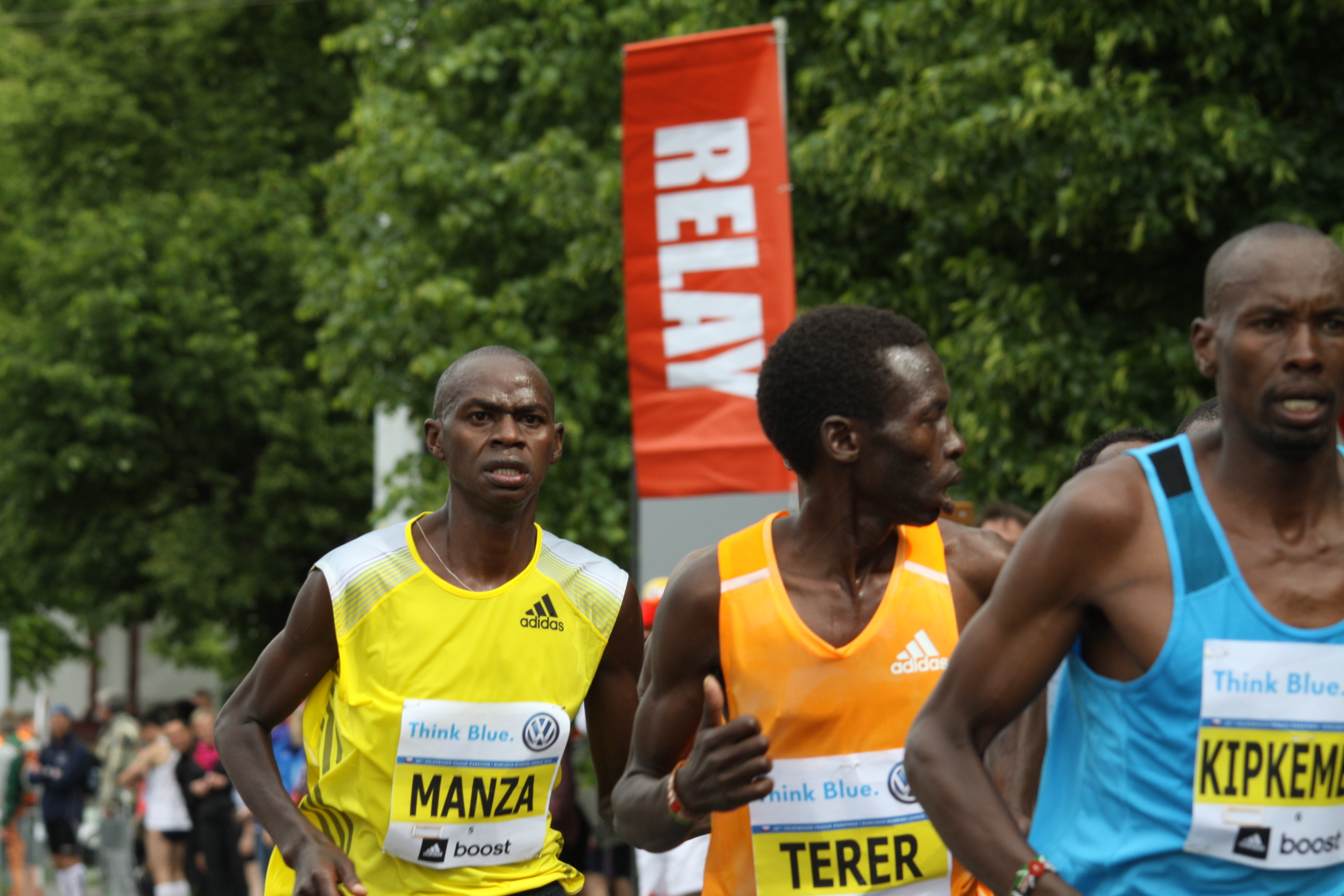 Nicholas Kamakya Manza. Prague International Marathon in 2014, Czech Republic